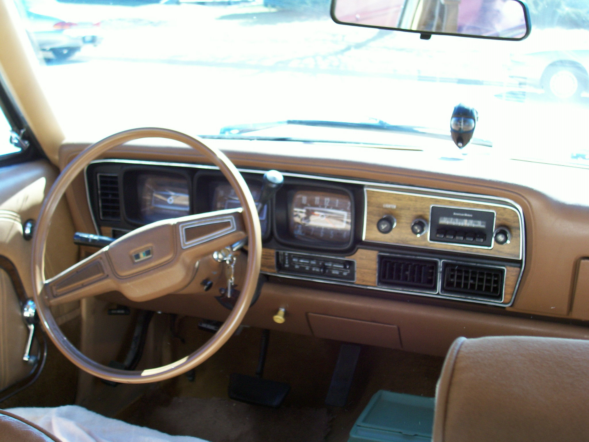 1978 AMC Matador interior. Heater switch broken, auxiliary switch has been added to underside of dash.